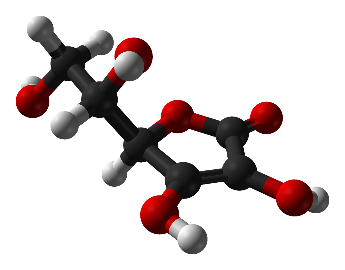 Ball-and-stick model of the L-ascorbic acid (vitamin C) molecule, C6H8O6, as found in the crystal structure. X-ray diffraction data from J. Mol. Struct.: THEOCHEM (1997) 419, 139-154. Model constructed in CrystalMaker 8.1. Image generated in Accelrys DS Visualizer.